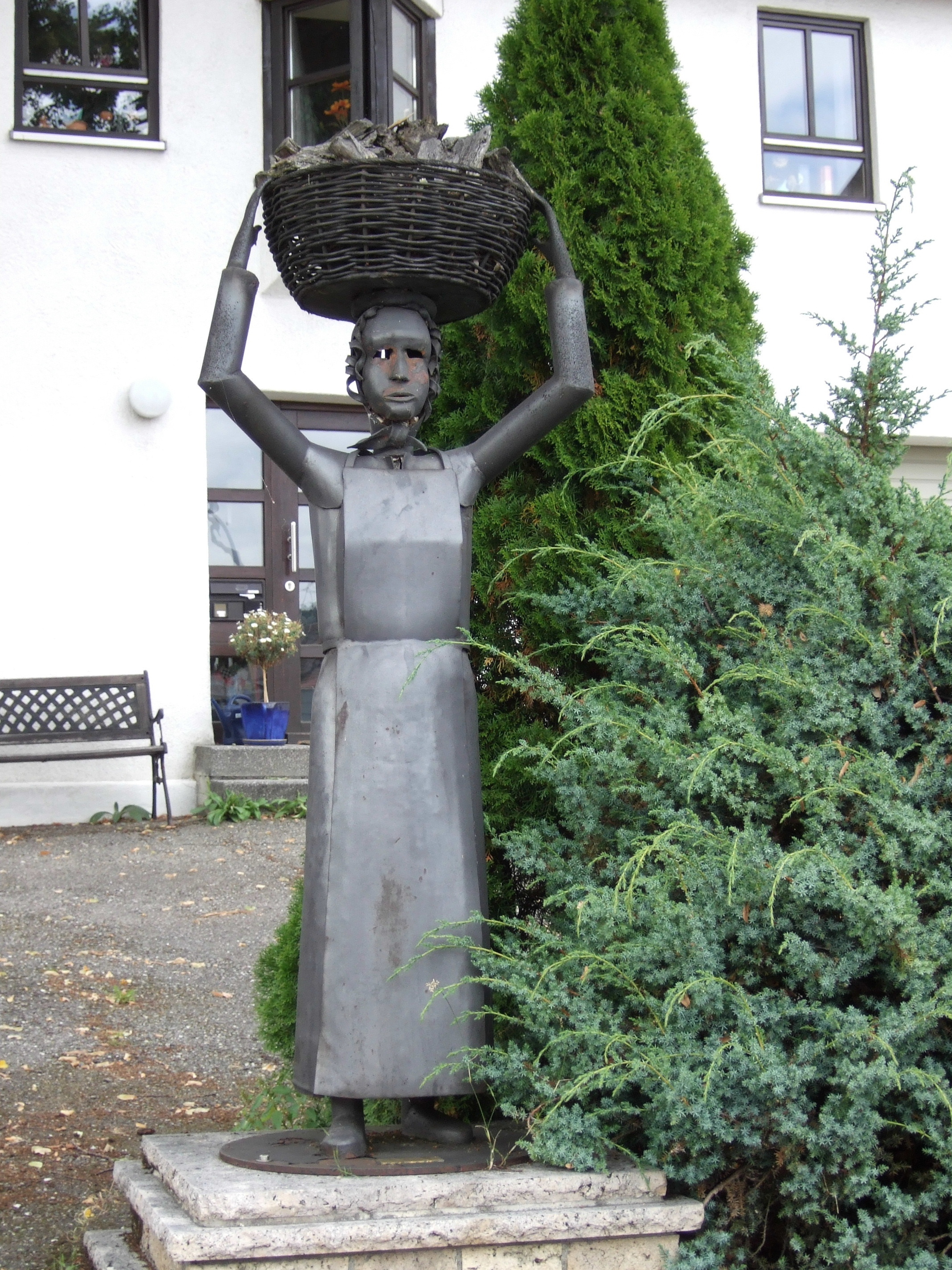 Keaweib in Albstadt-Pfeffingen